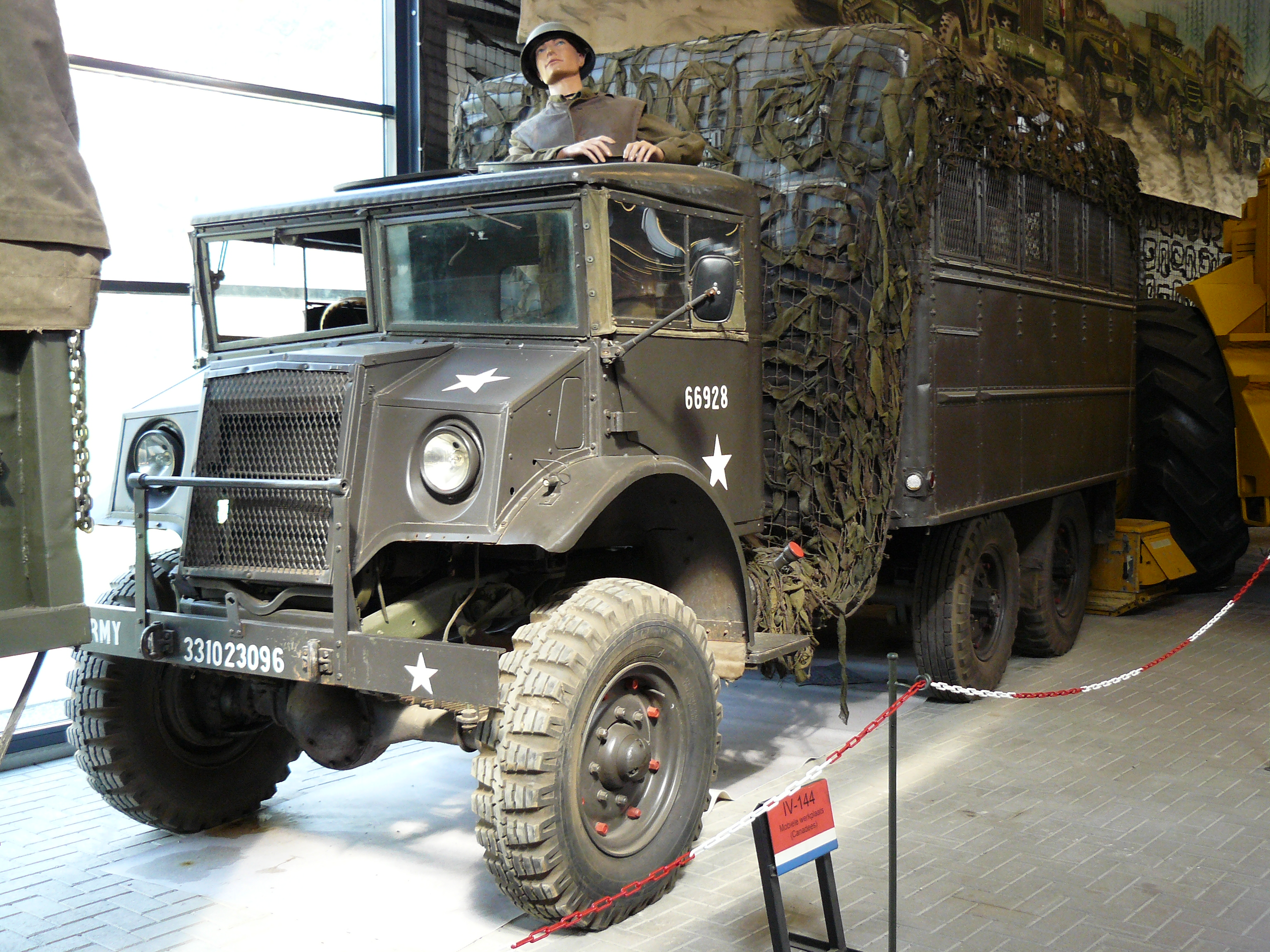 Chevrolet C60X (6x6, 160 inch + 52 inch wheelbase, 3 ton). Seen in Warmuseum Overloon, the Netherlands in April 2008